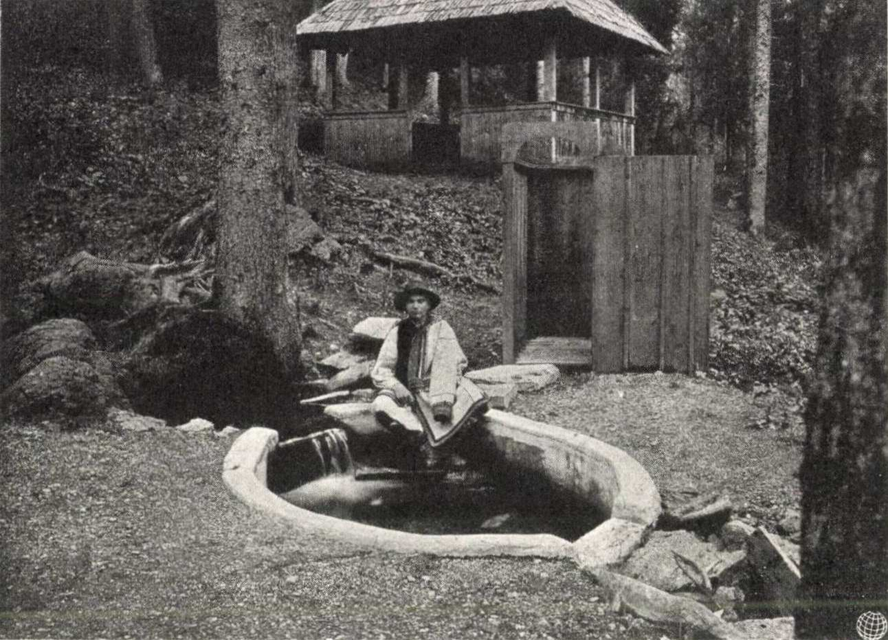 Stâna de Vale.